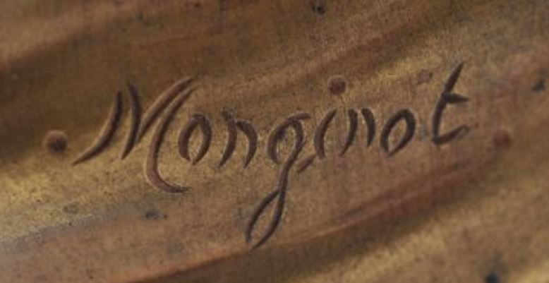 Charlotte Monginot's signature